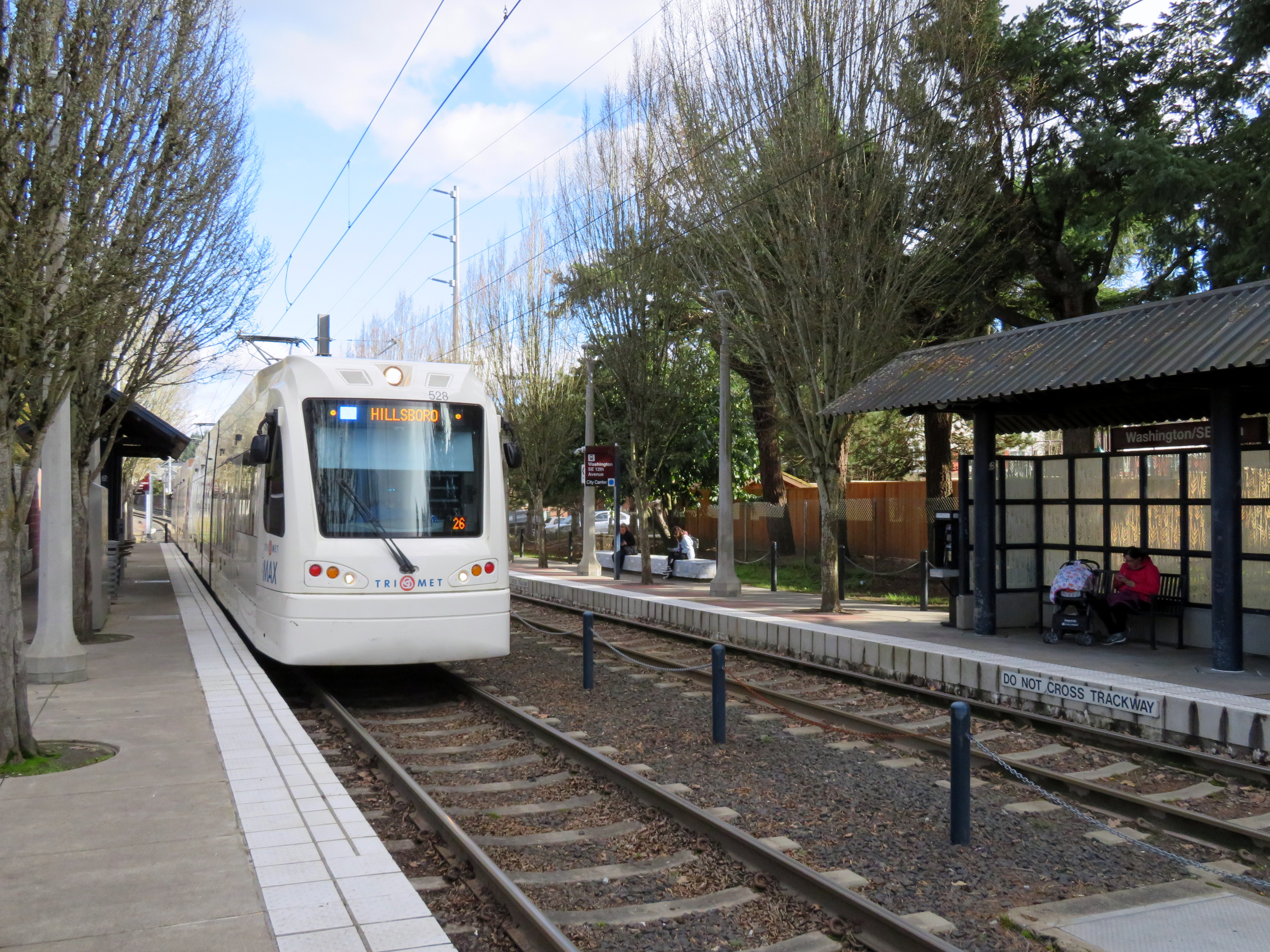 Westbound train arriving at Washington/Southeast 12th Avenue station in February 2018